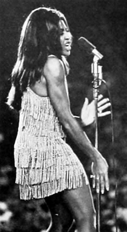 Tina Turner performing at Tulane Stadium, New Orleans, 24 October 1970